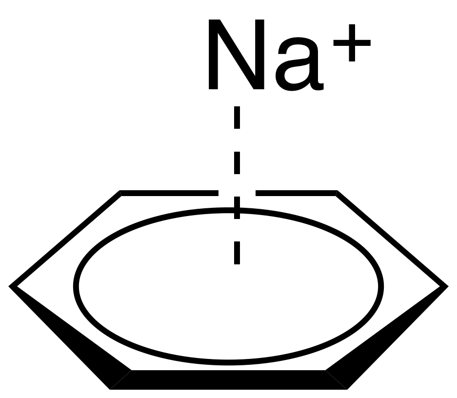 Sodium cation sitting atop the pi system of a benzene ring through a cation-pi interaction.